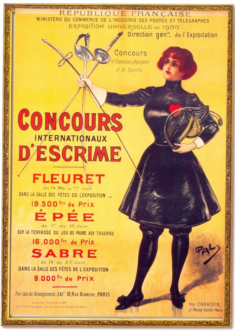 Official poster from the World Exhibition in 1900, Paris